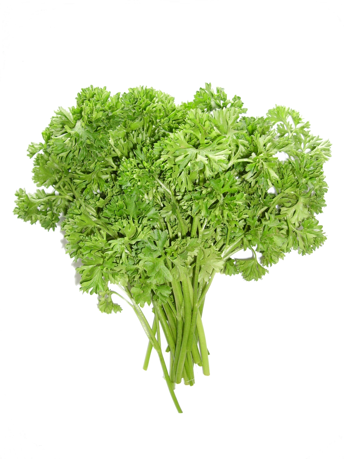 A bunch of parsley (Petroselinum crispum)